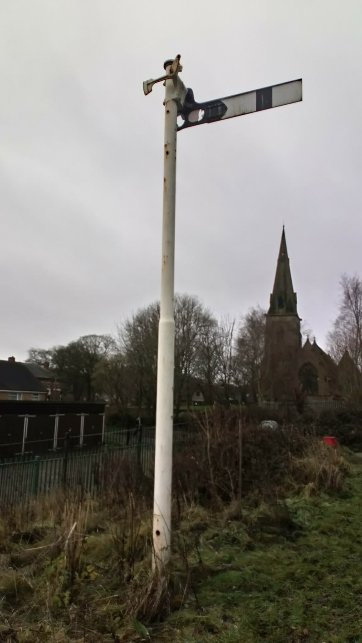 My own photo.